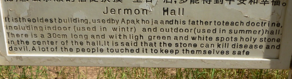 I took these photos on a trip to Kashgar in 2011.